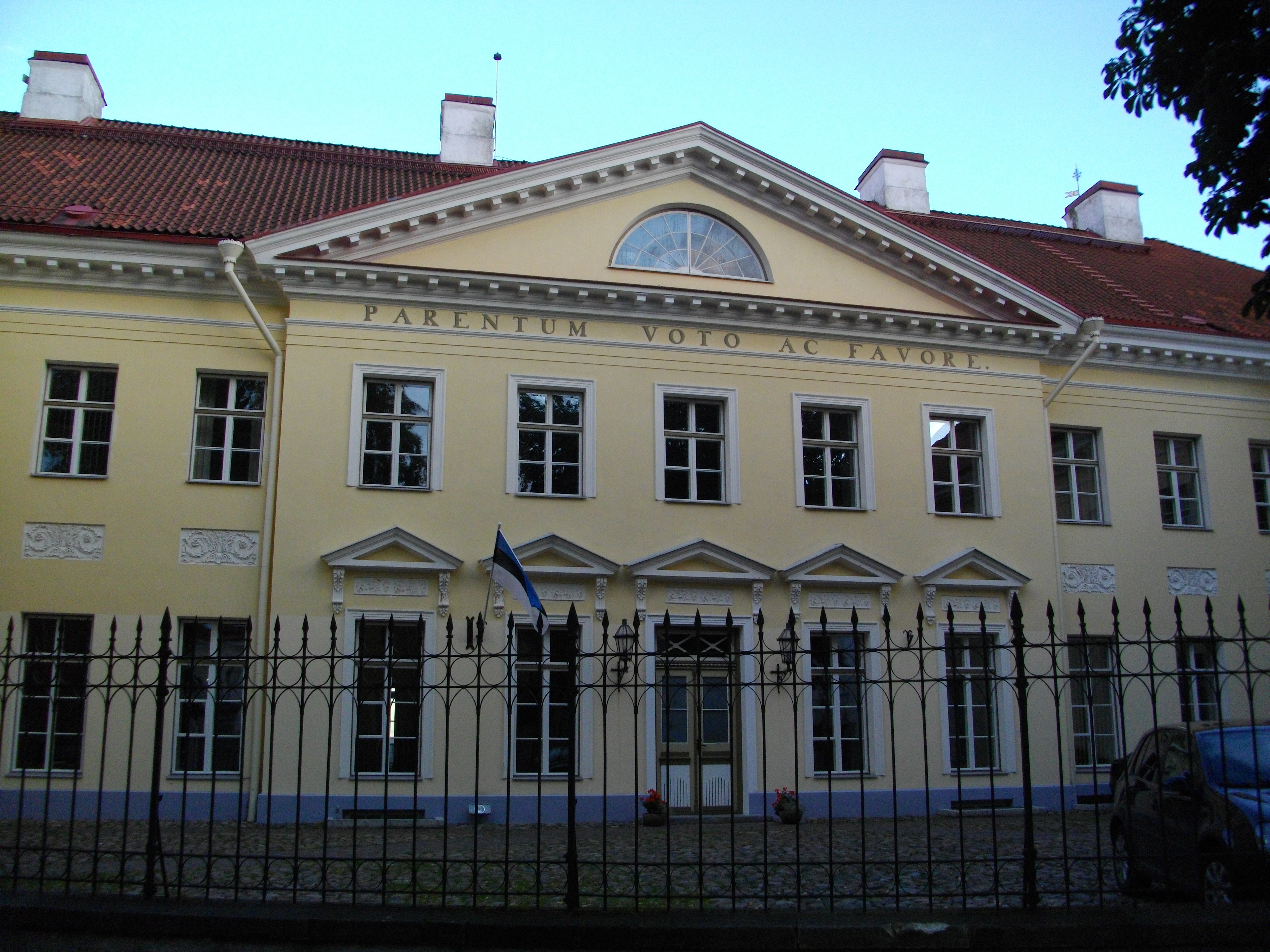 Kohtu 8, õiguskantsler